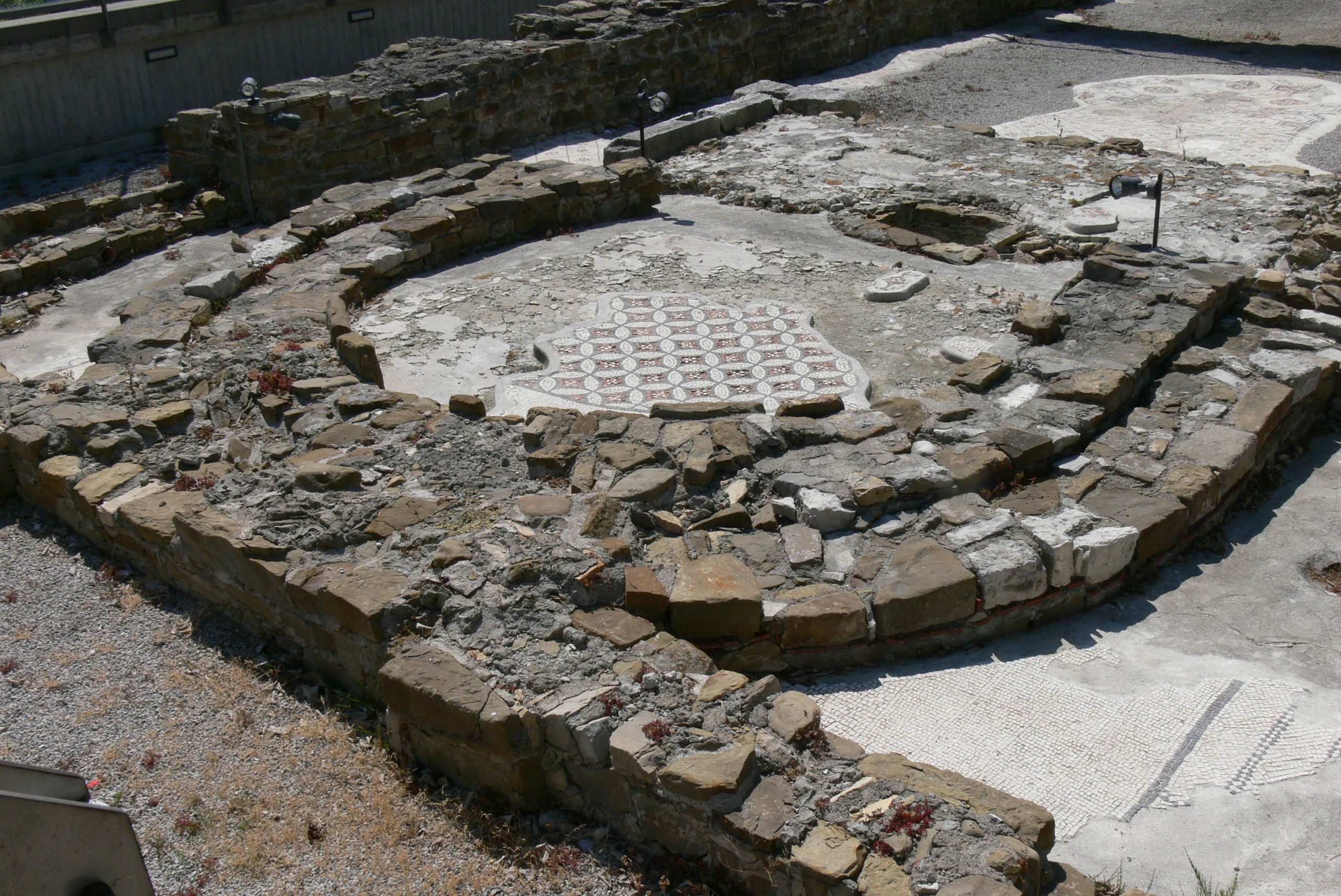 Grado, Italy. Remnants of the basilica of San Giovanni ( 4th-6th century ).